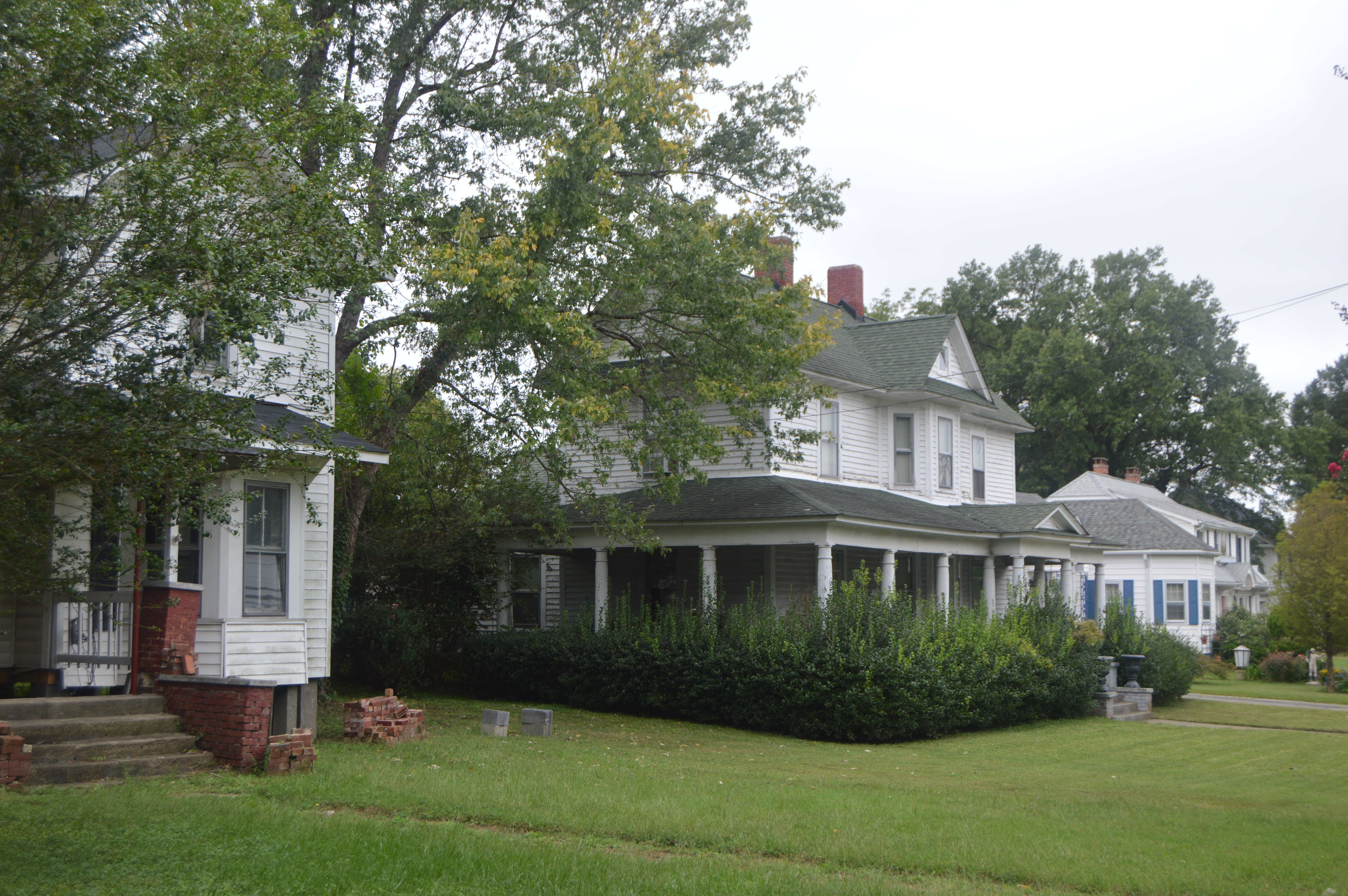 Houses on the western side of Salem Street, just north of the Forsyth Street intersection, in Thomasville, North Carolina, United States. This block is part of the Salem Street Historic District, a historic district that is listed on the National Register of Historic Places.